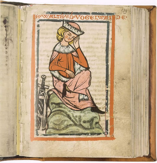 Walther von der Vogelweide; Miniature from the 'Weingartner Liederhandschrift', 1310-1320.